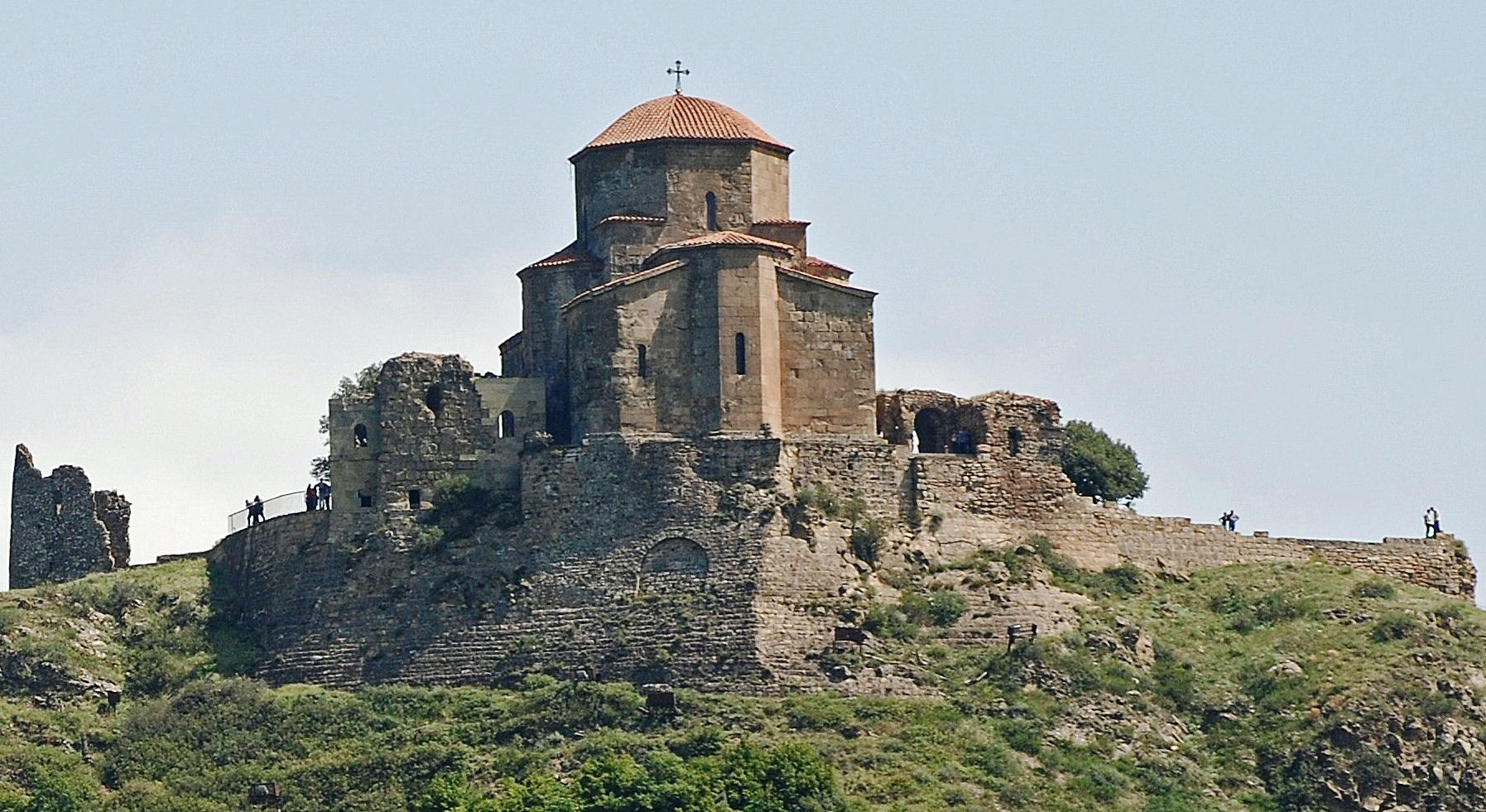 Jvari monastery, Mtskheta, Georgia